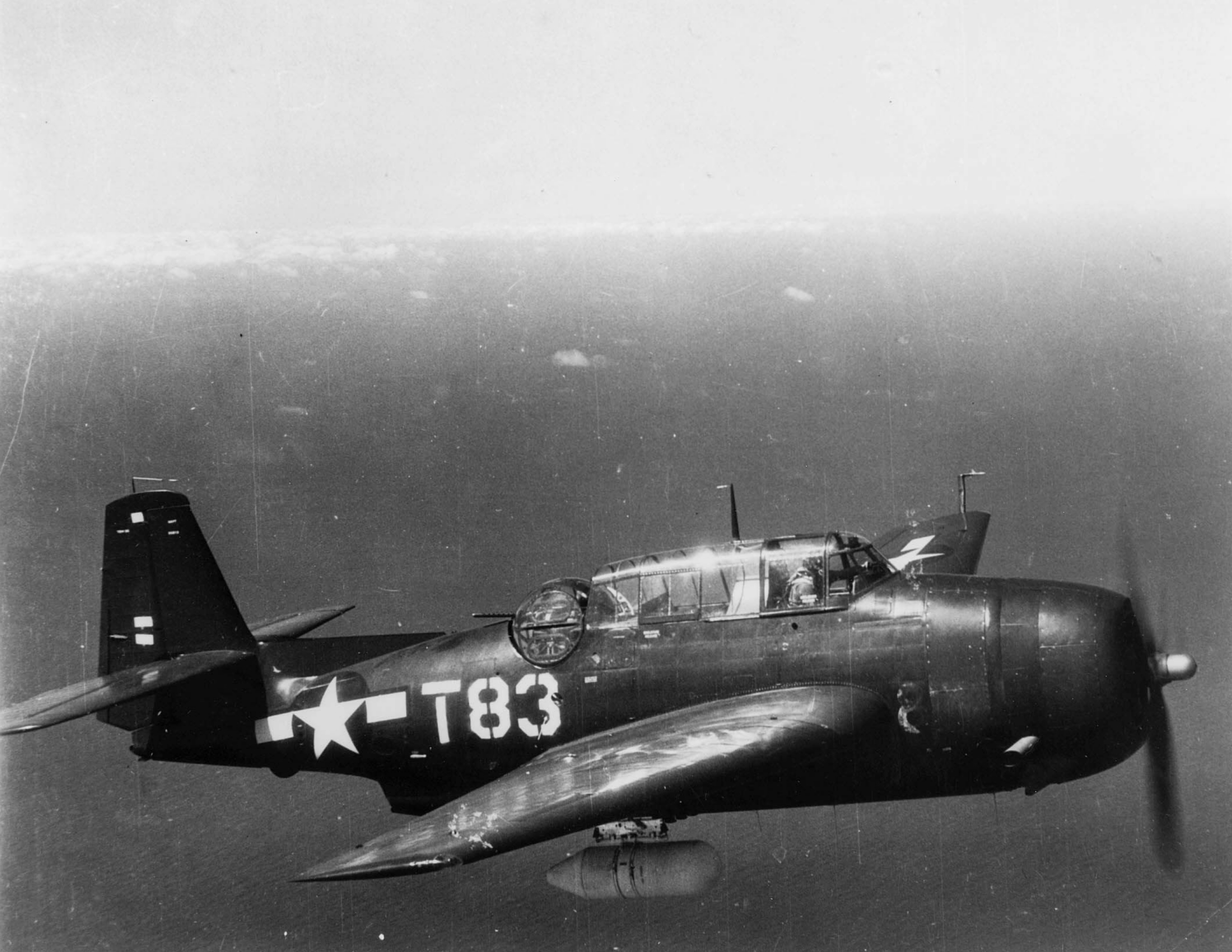 A U.S. Marine Corps Grumman TBM-3E Avenger of Marine Torpedo Bomber Squadron 234 (VMTB-234) assigned to the escort carrier USS Vella Gulf (CVE-111), in flight.